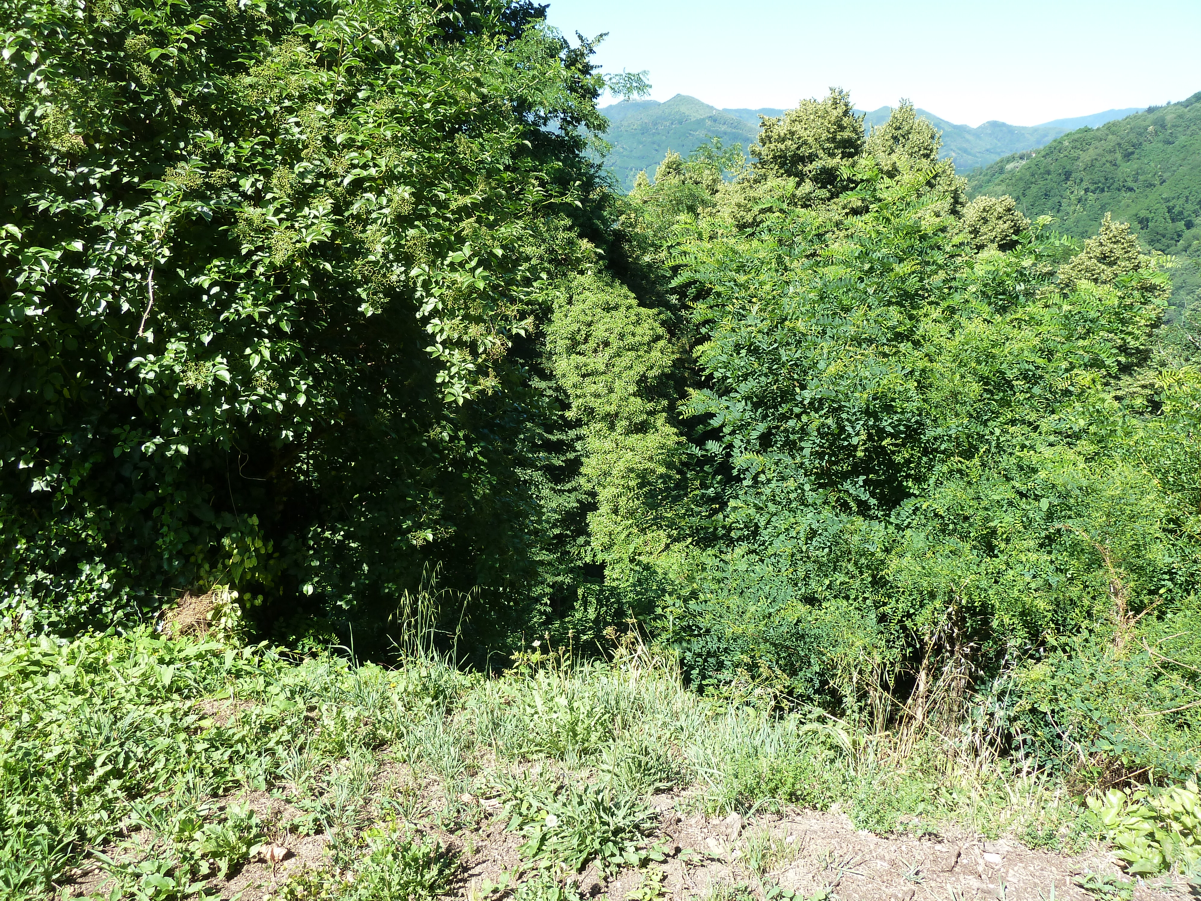 Bagni di Lucca, Italy June 2015 Nature